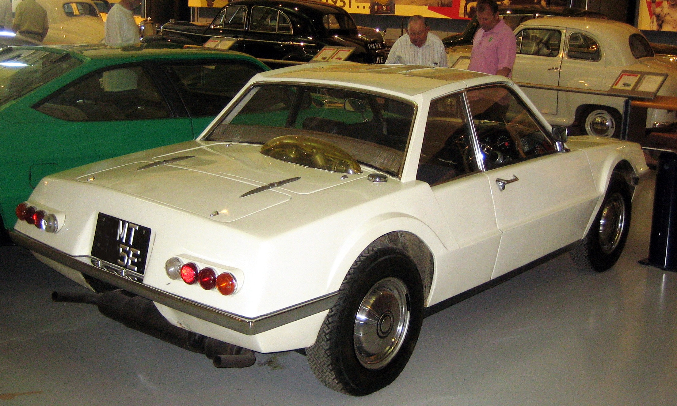 Rover Alvis mid engined sports prototype. License plate 1967. At the time the car was made available to the British motoring press and there was speculation that the design might enter production, but the company was increasingly short of cash as the residual UK mass market auto industry consolidated into BMH and then into BLMC. The car never went into production. The vehicle, when photographed, was on display at the Heritage Motor Centre in Warwickshire, England.